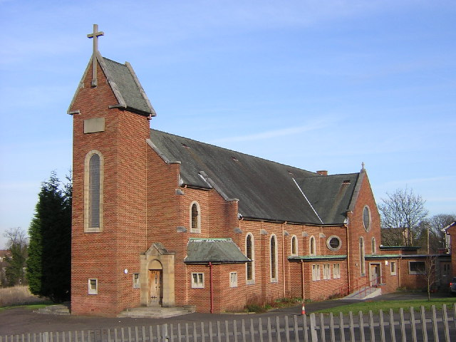 St Mark Church in Fernhill.